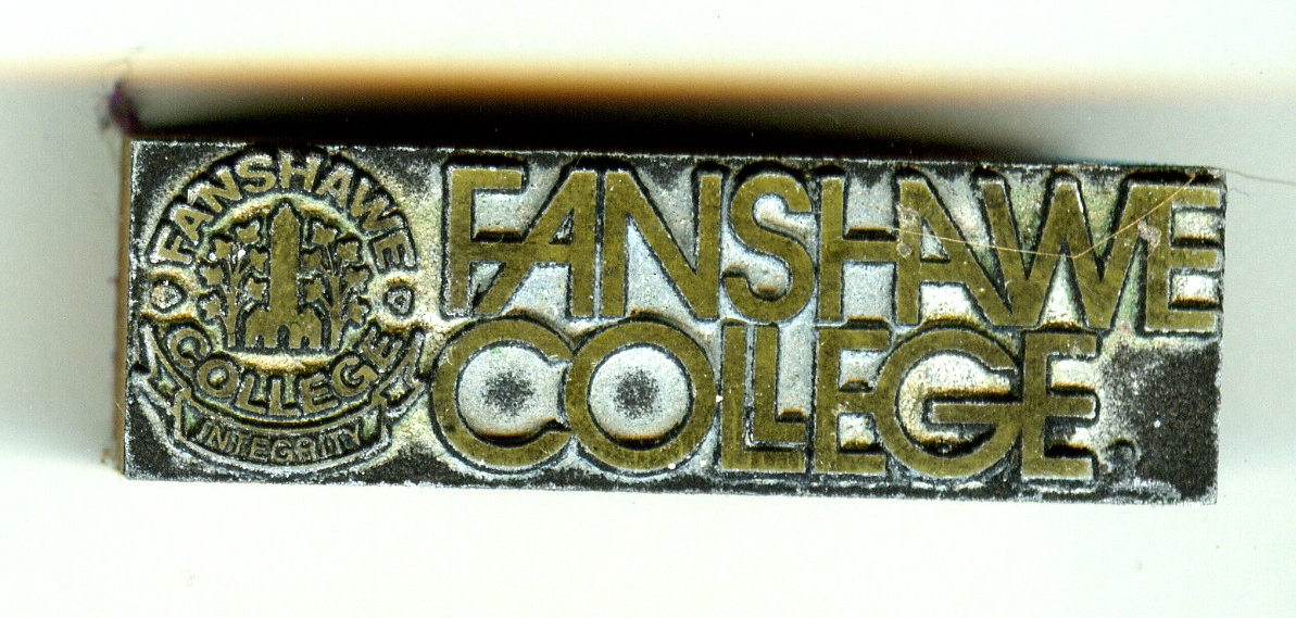 Old non-used logo printers template fo Fanshawe College, London Ontario Canada